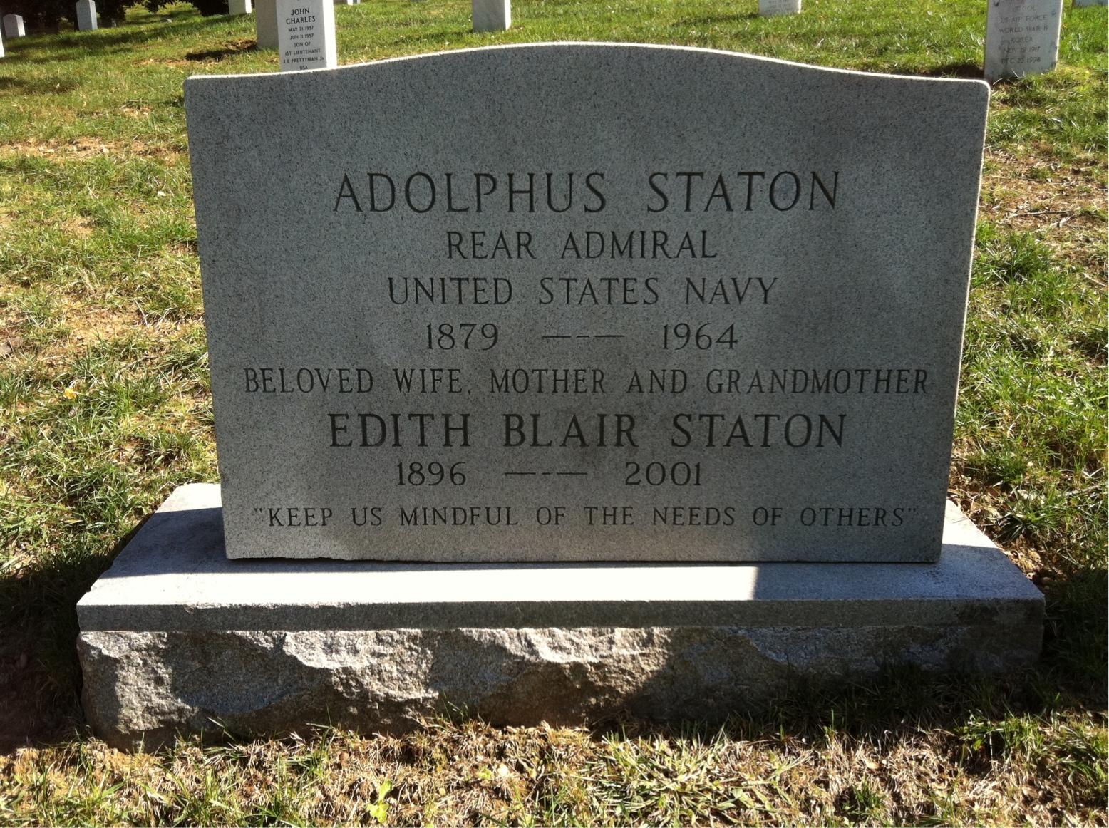 Grave of Adolphus Staton at Arlington National Cemetery